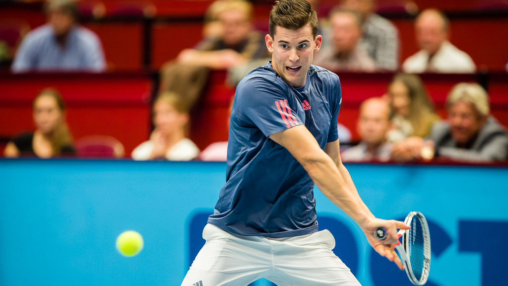 Dominic Thiem (AUT) vs. Gerald Melzer (AUT) 1st round at Erste Bank Open ATP World Tour 500 in Vienna 25.10.2016